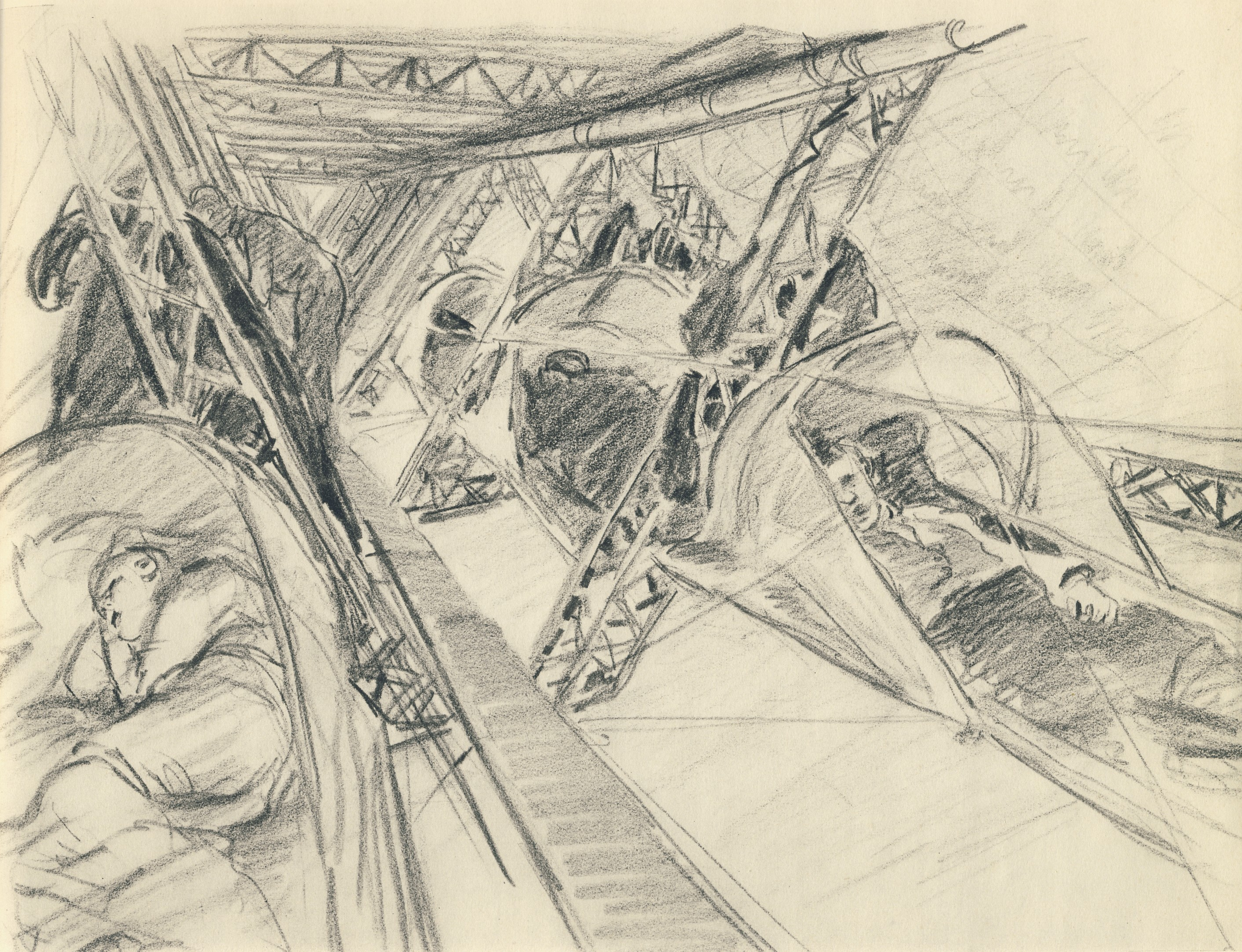 Theo Matejko: LZ 127, Graf Zeppelin